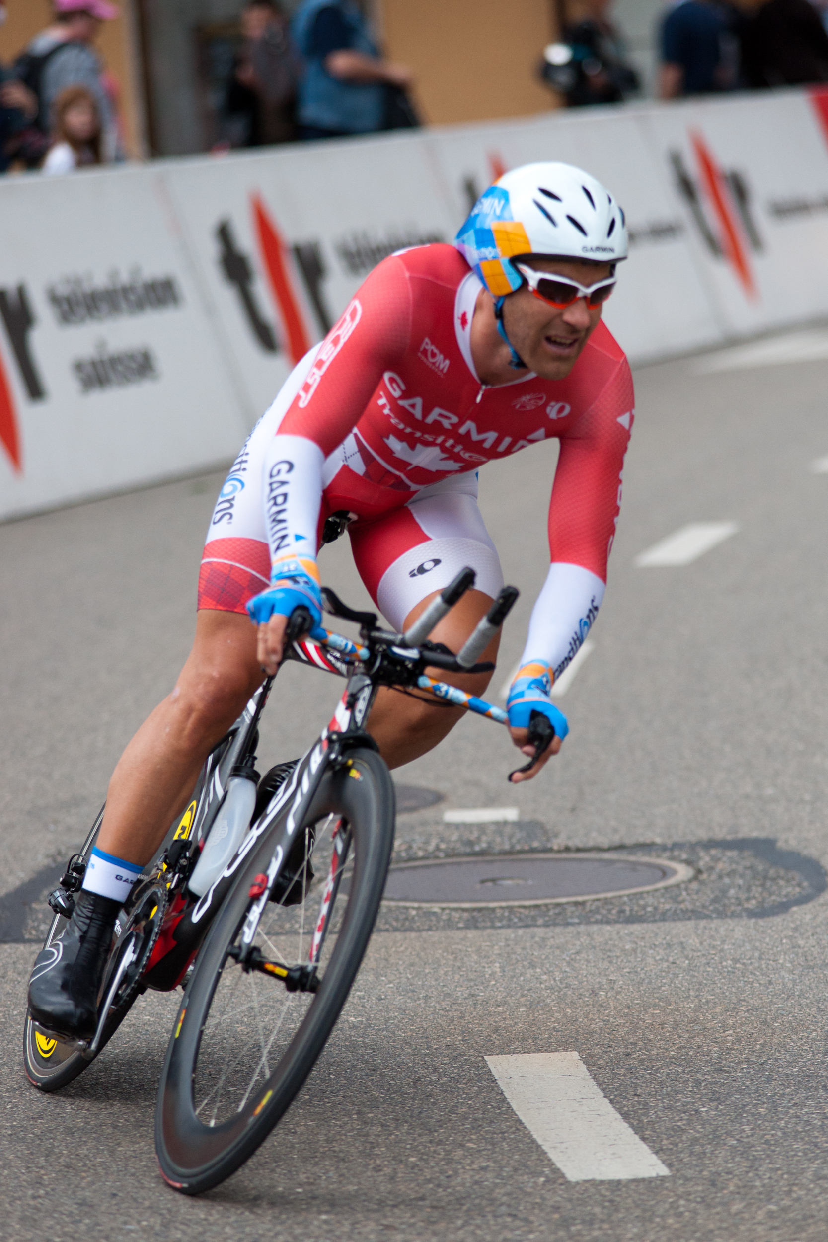 Svein Tuft during the 3rs stage of the Tour de Romandie 2010.